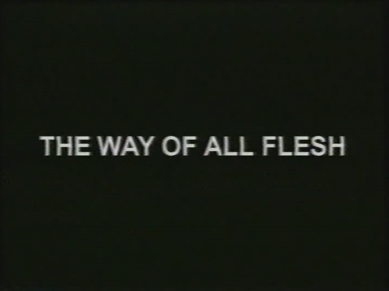 Titles from The Way Of All Flesh film